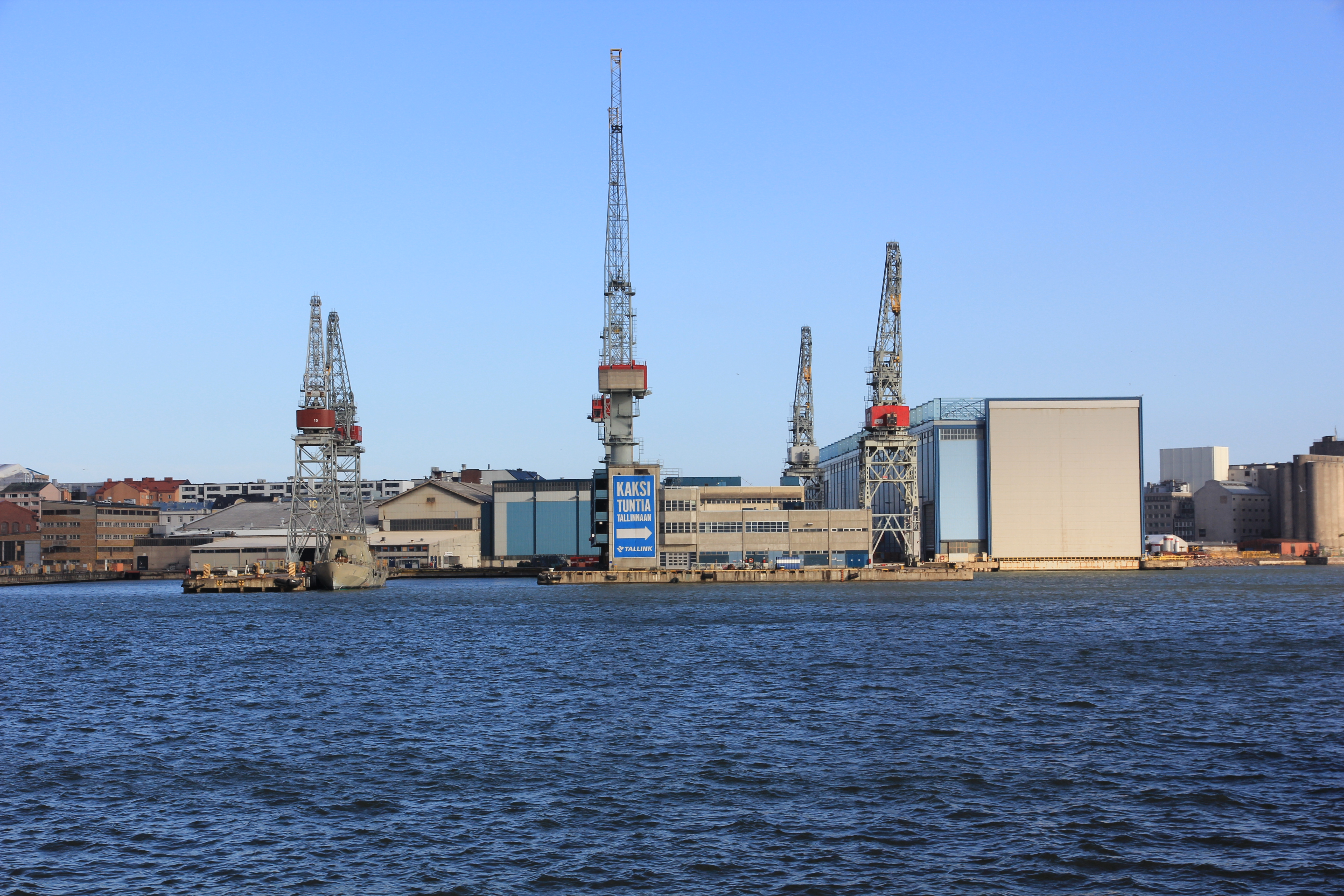 Hietaniemi shipyard in Helsinki. A decommissioned missile boat Helsinki (60) is moored at the pier.